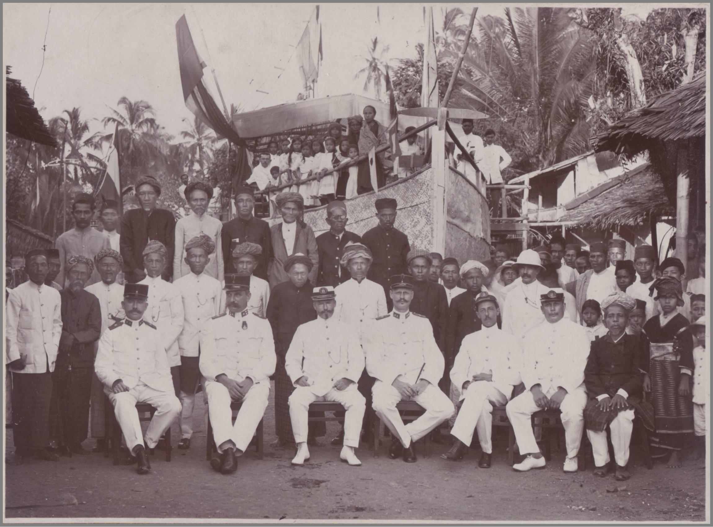 Group portrait depicting Dutch and native dignitaries in a West Sumatra village. The names of the Dutch officials are written on the mount. From left to right: P.E. Maier - medical officer; A. Geertsema Beckeringh - Kolonel der infanterie, Military commander of West Sumatra J.D.L. Le Febvre - Resident of West Sumatra J.K. Koops Dekker - Majoor der infanterie P.C. Arends - Assistent Resident S. Schoggers - Controleur